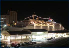 Terminal Don Diego